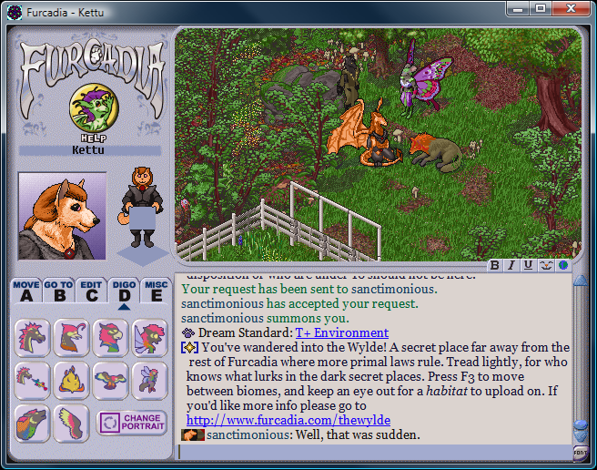 Screenshot of Furcadia after "Kitterwing update" (v. 23) taken by Aleksi Asikainen. This image is released for use under GFDL by the copyright holder of Furcadia, Dragon's Eye Productions, Inc.